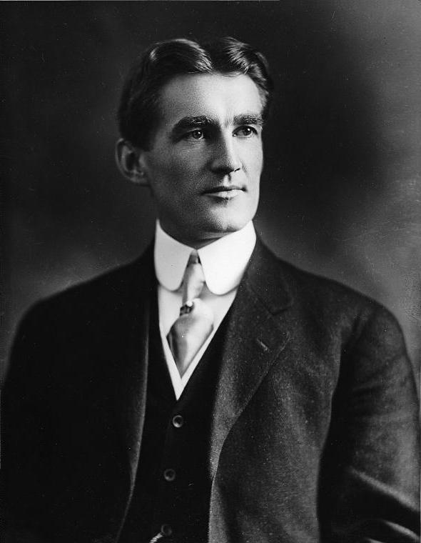 Photograph, J. W. McConnell, YMCA, Montreal, QC, 1910, Wm. Notman & Son, 1910, Silver salts on glass - Gelatin dry plate process - 17 x 12 cm